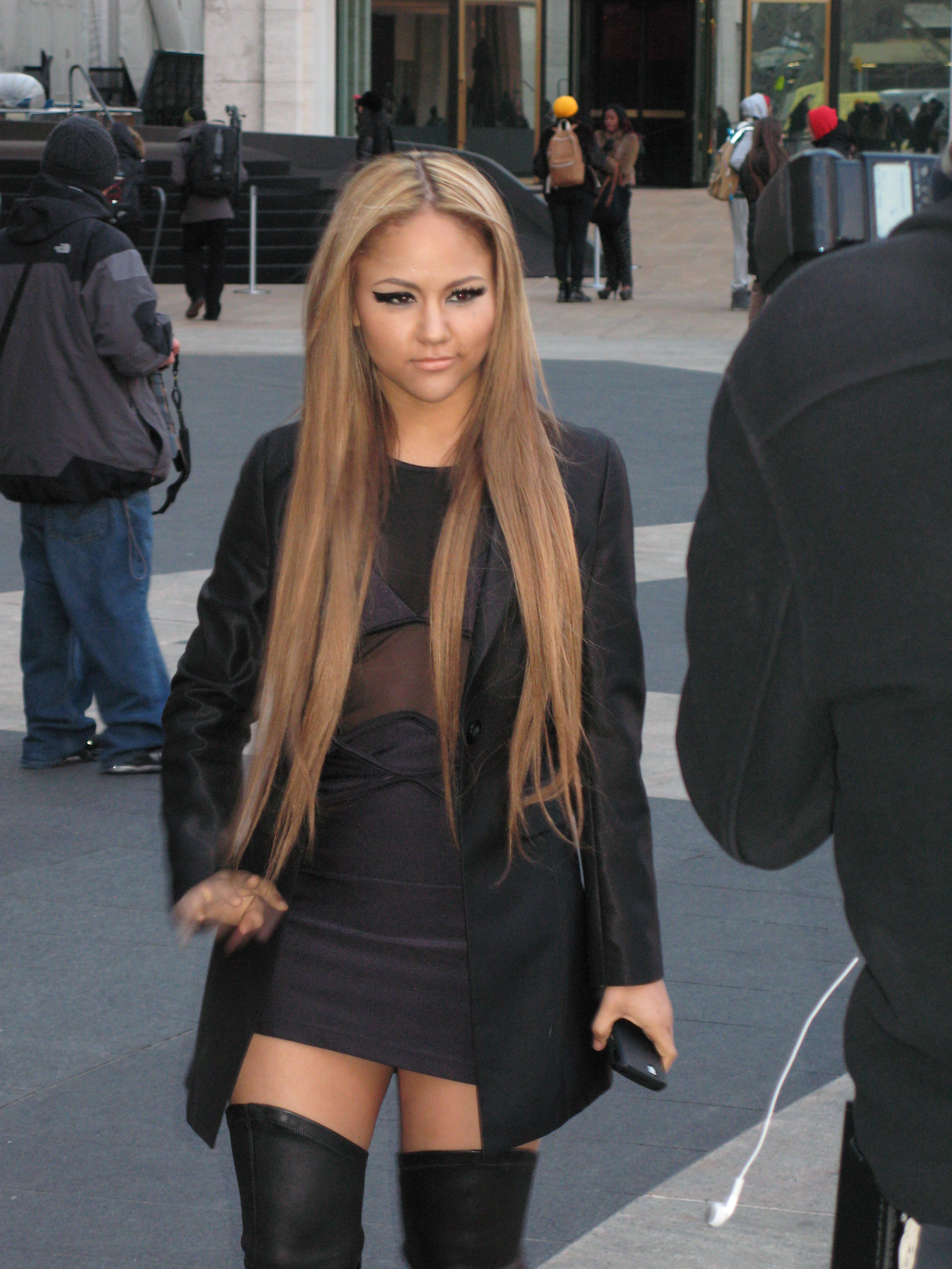 Singer Kat DeLuna.